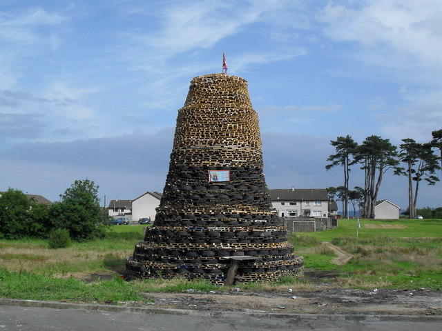 A loyalist "11th Night" bonfire in the Rathfern housing estate in Newtownabbey, County Antrim, Northern Ireland. Please note the Union Flag is removed before ignition